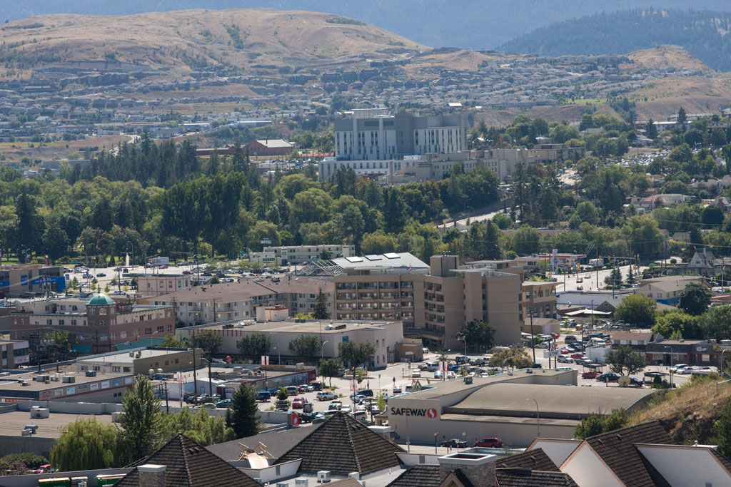 Downtown Vernon BC from Becker Park